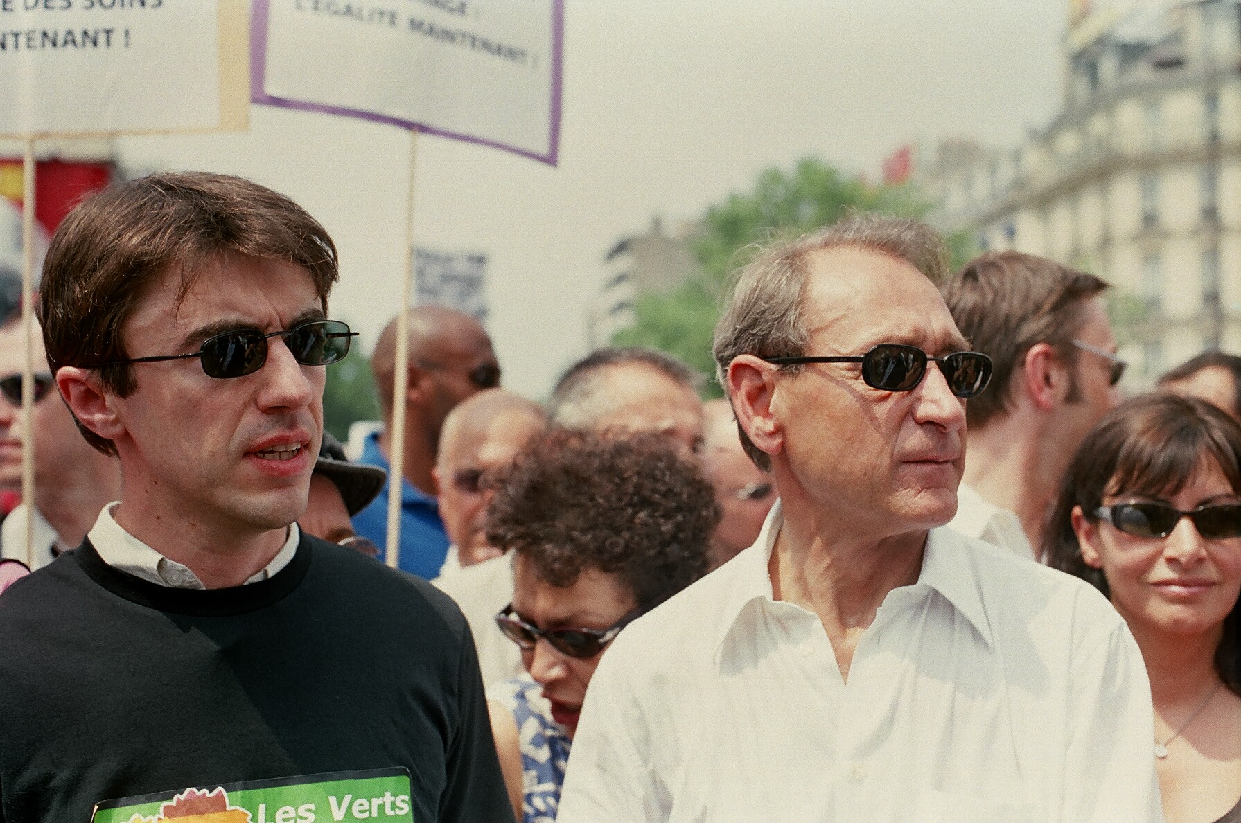 Yann Wehrling(Left) and Bertrand Delanoë(Right) at Paris Gay Pride 2005